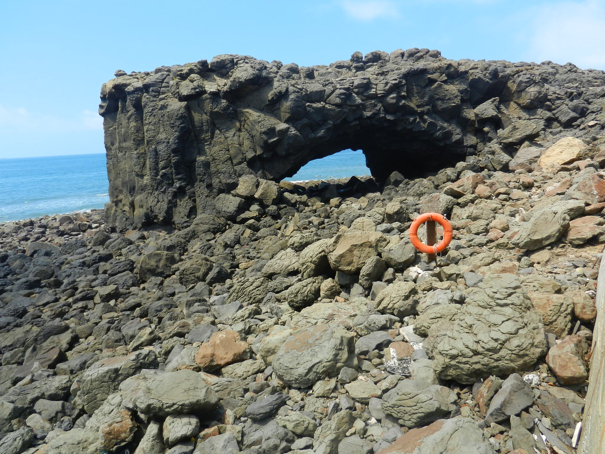 The Xiaomen Islet. the famous cave landscape in Penghu. 小門鯨魚洞